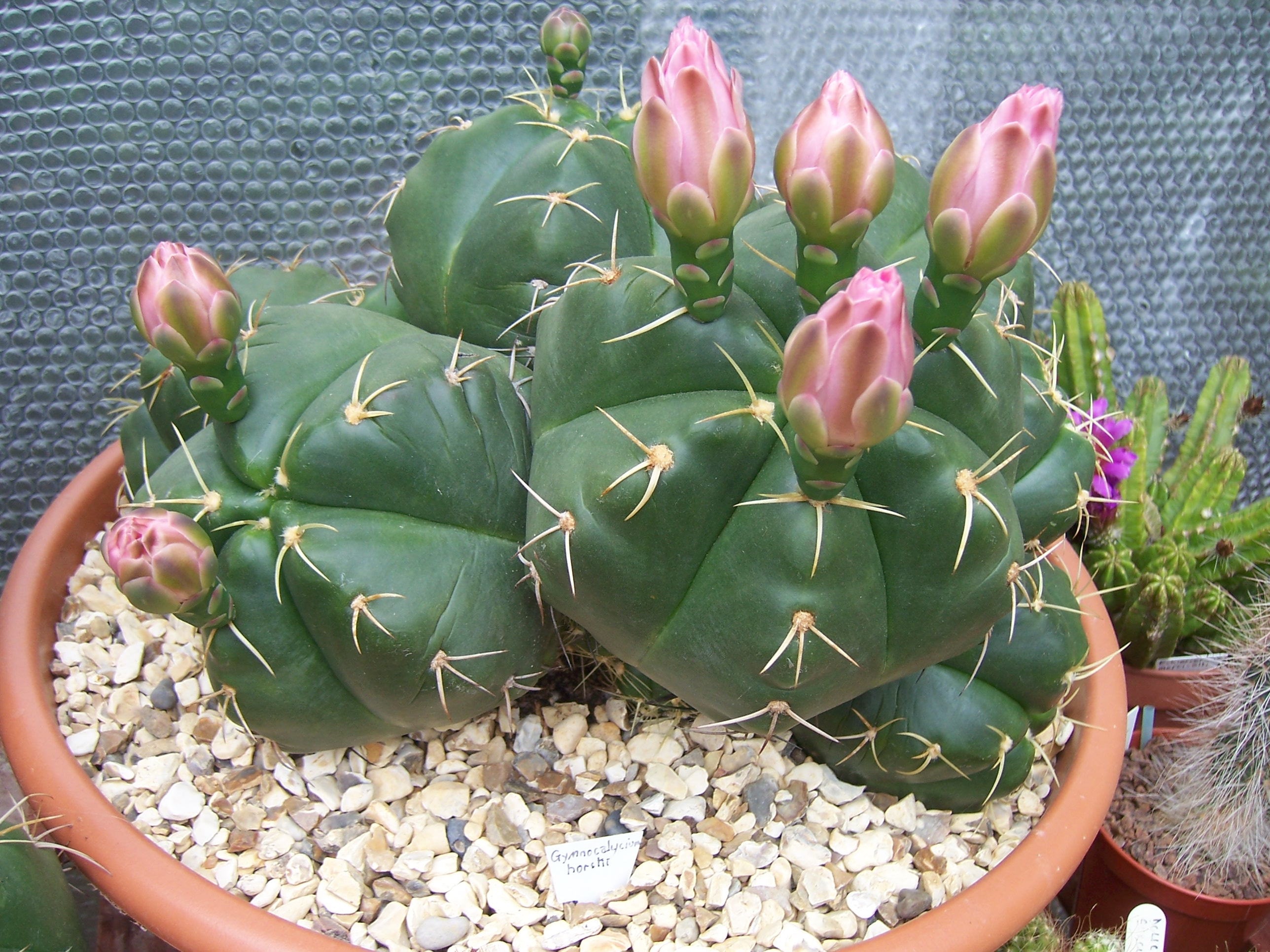 Arthur Tomkins' Greenhouse - epic Gymno